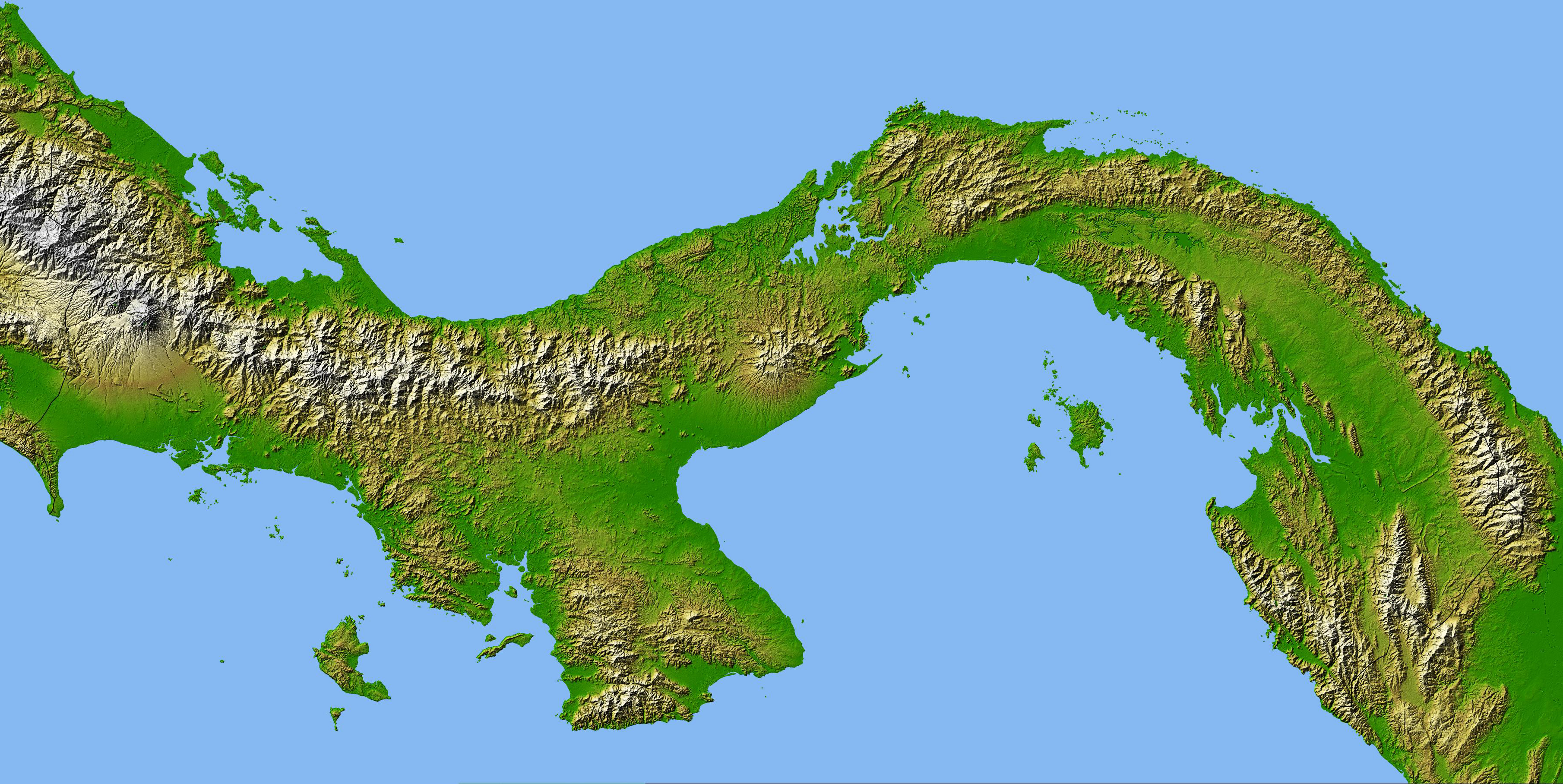 Digitized image of the Panama Isthmus created by NASA's Shuttle Radar Topography Mission (SRTM)